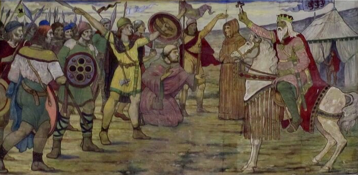 Brian Boru addressing his Army before the Battle of Clotarf 1014 AD. Dublin, Ireland, City Hall 124x248cm approx.